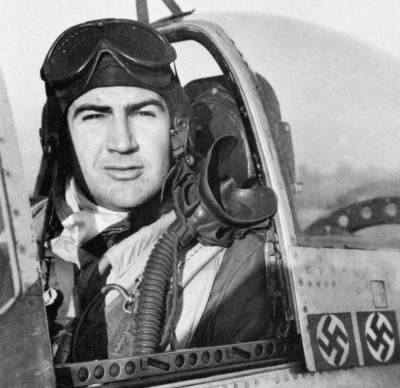 Captain Robert V. Whitlow, while a member of the 2nd Scouting Force, Eighth Air Force, poses in his P-51 Mustang, which displays the tallies from aerial kills of two Focke-Wulf 190s on November 26, 1944.